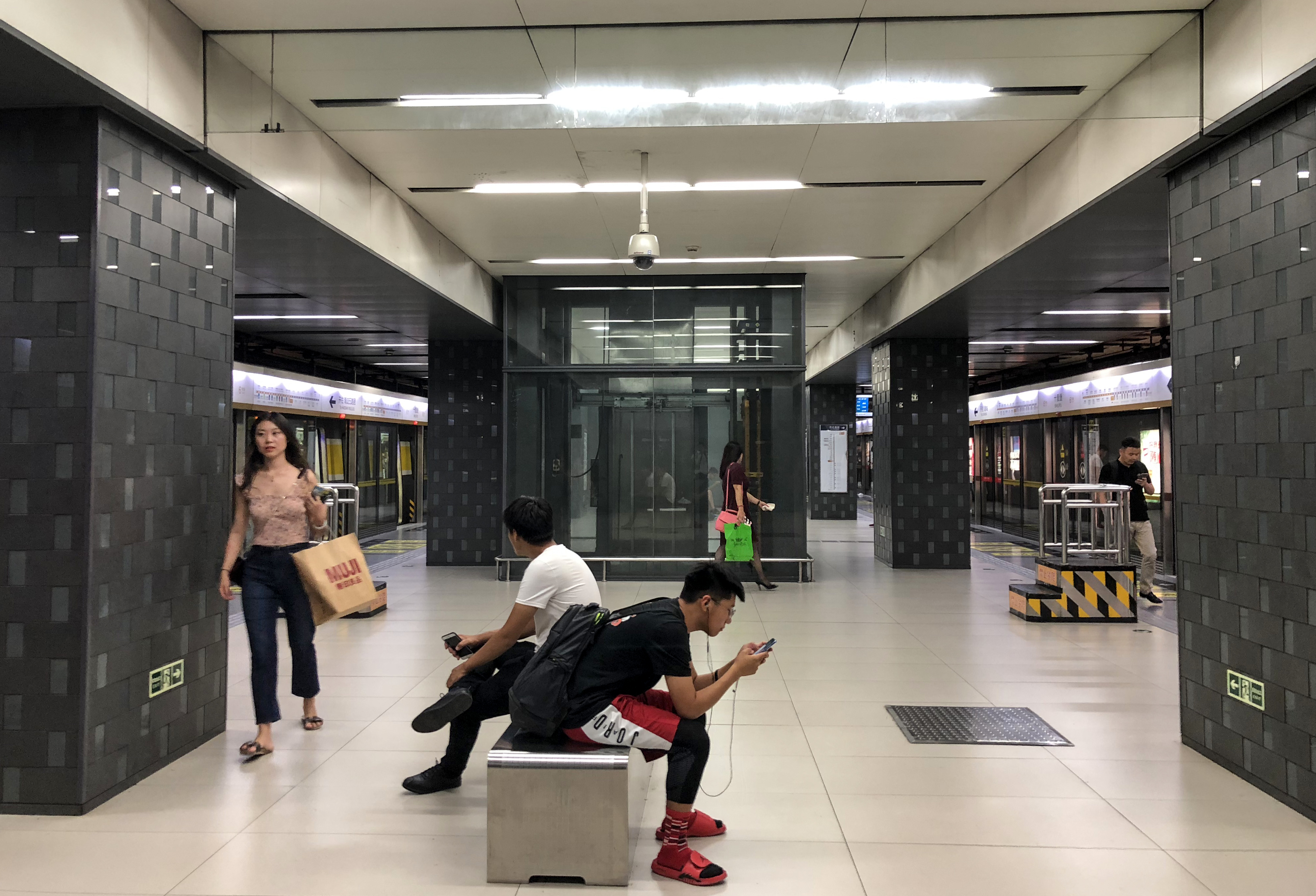 All but Haojiafu!